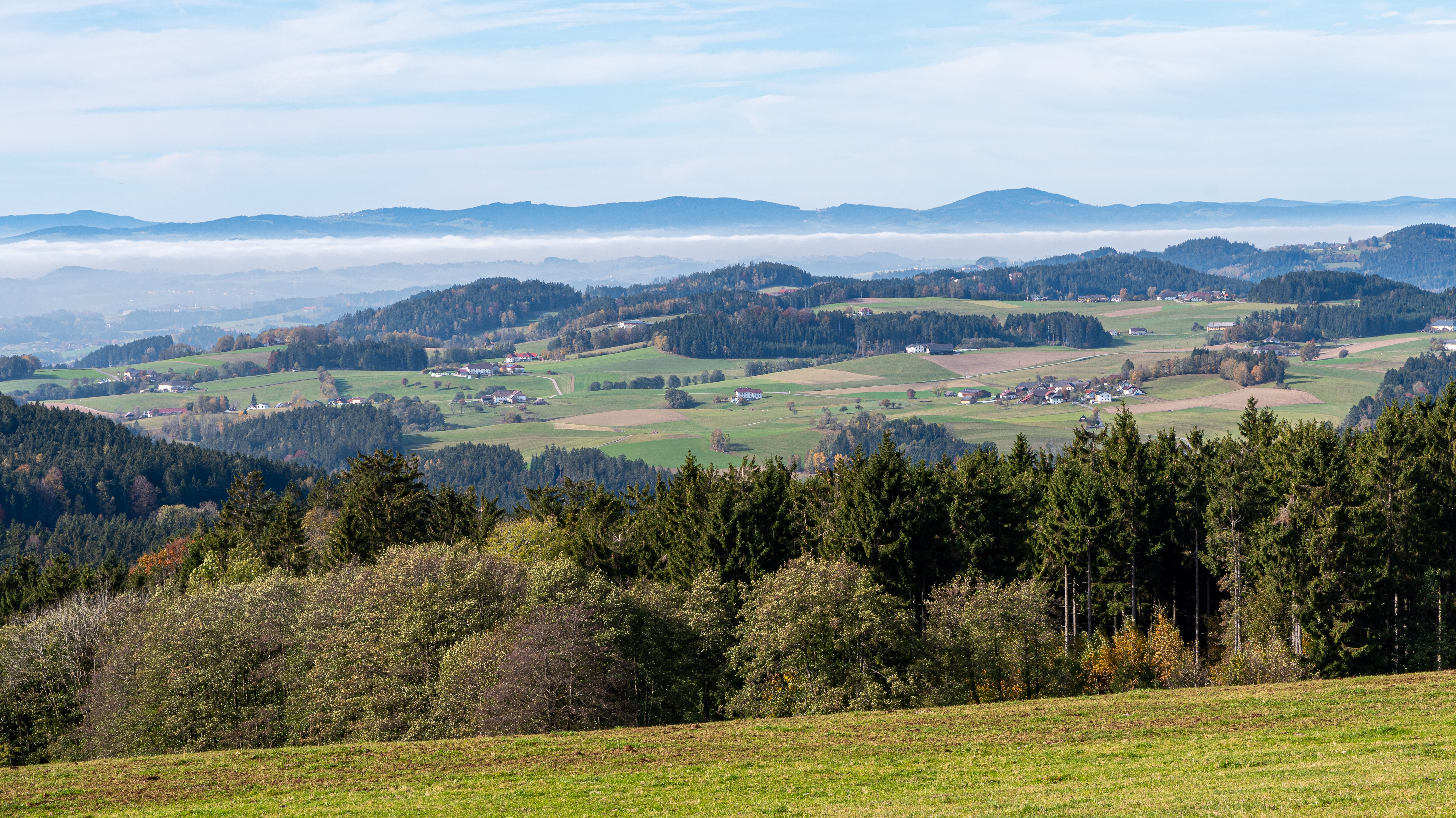 View from Sonnenweg in Kirchschlag (Upper Austria) to the valley of Große Rodl and Gramastetten